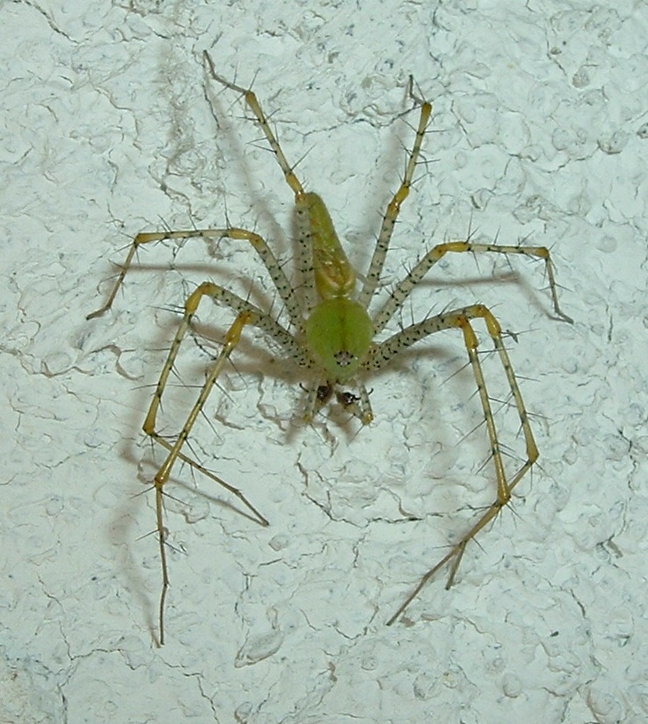 Green Lynx Spider (Peucetia viridans) in Southern California